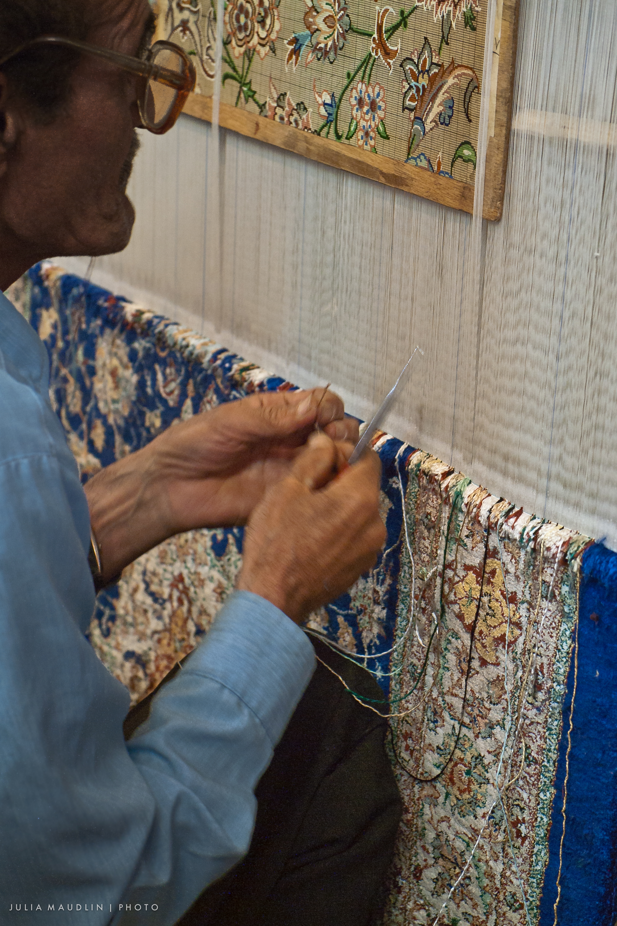 Following the Pattern, Weaver, Esfahan, Iran